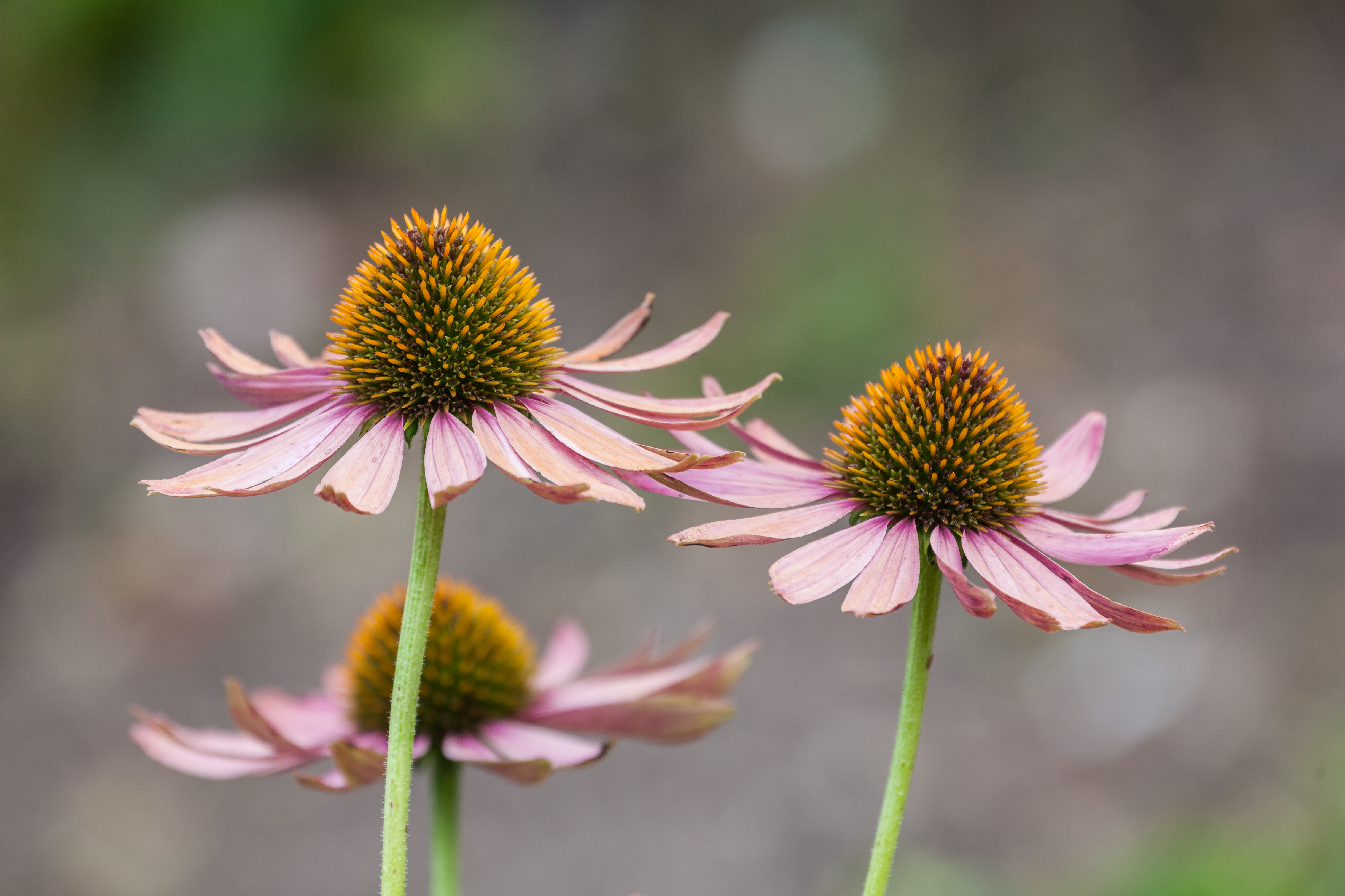 Echinacea purpurea, Botanical Garden, Munich, Germany.